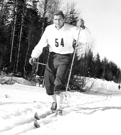 Swedish cross-country skier Nils "Mora-Nisse" Karlsson on his way to victory in the 1950 edition of Vasaloppet.